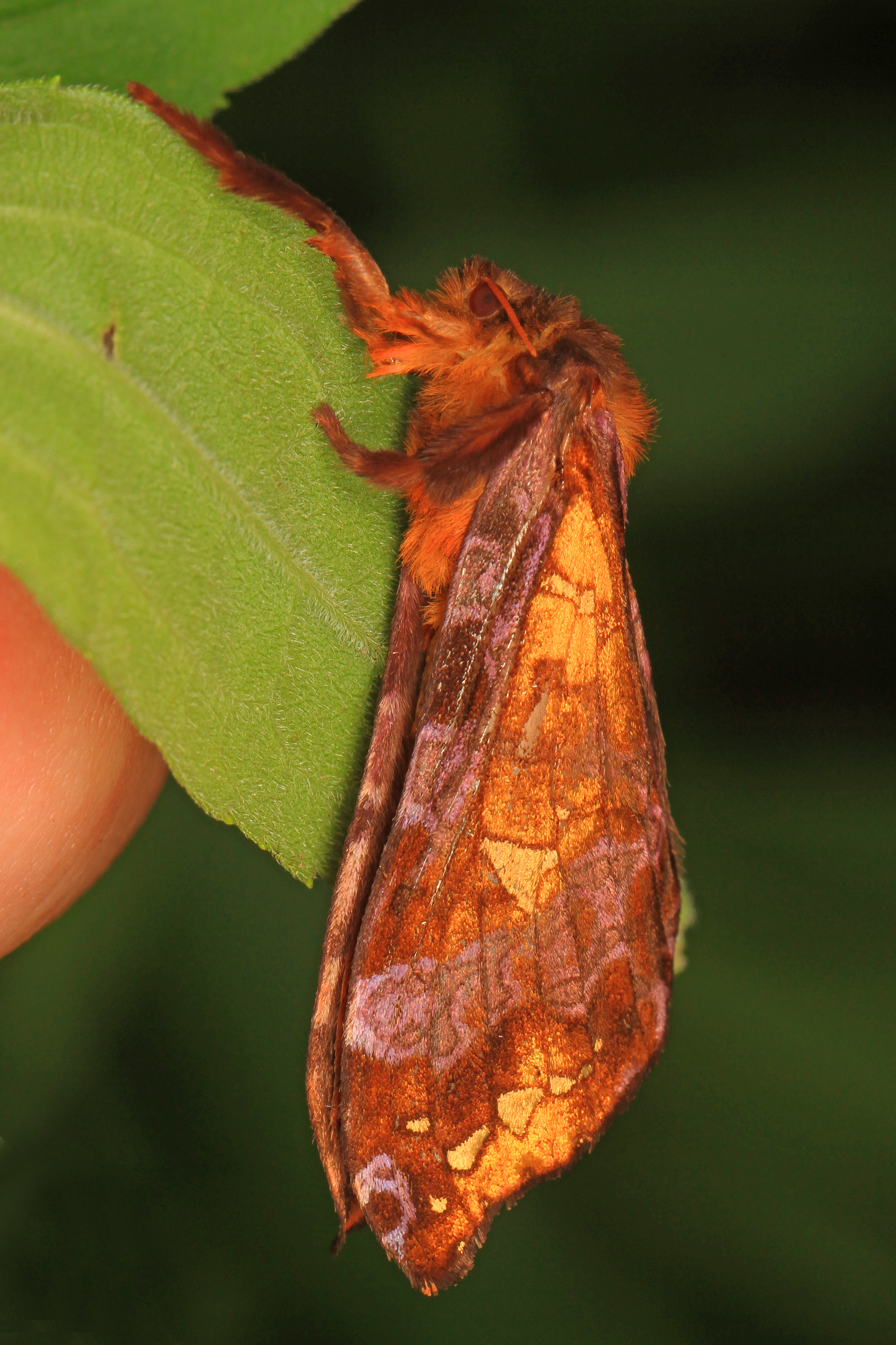 Gold-spotted Ghost Moth - Sthenopis pretiosus, Friendsville, Maryland Garrett County, 6/19/2016 see Bugguide